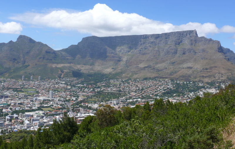 Photo by Hilton Teper